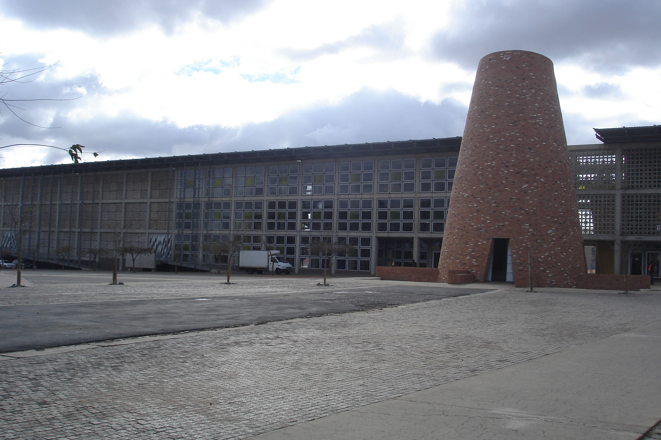 Walter Sisulu Square - Soweto